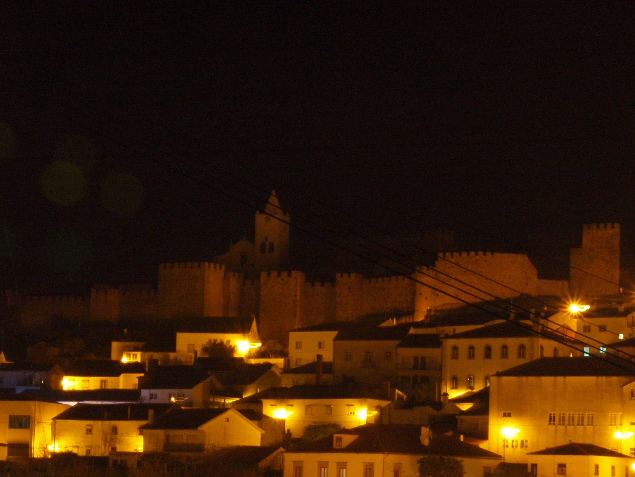 Night view of the castle of Penela, Coimbra, Portugal.